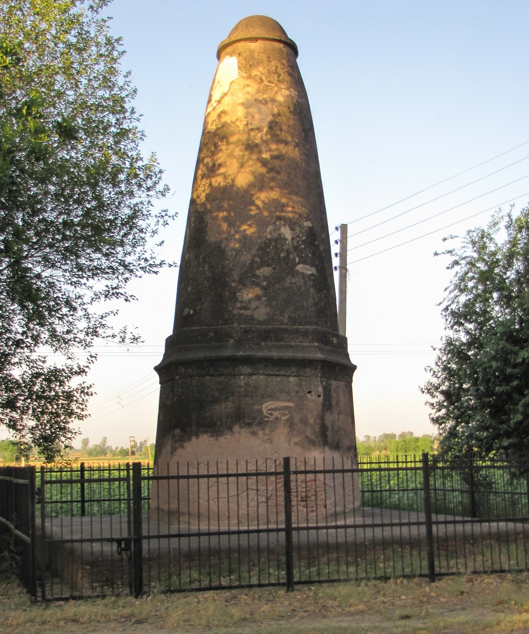 Dakhni Mughal Kos Minar, Jahangir Jalandhar.